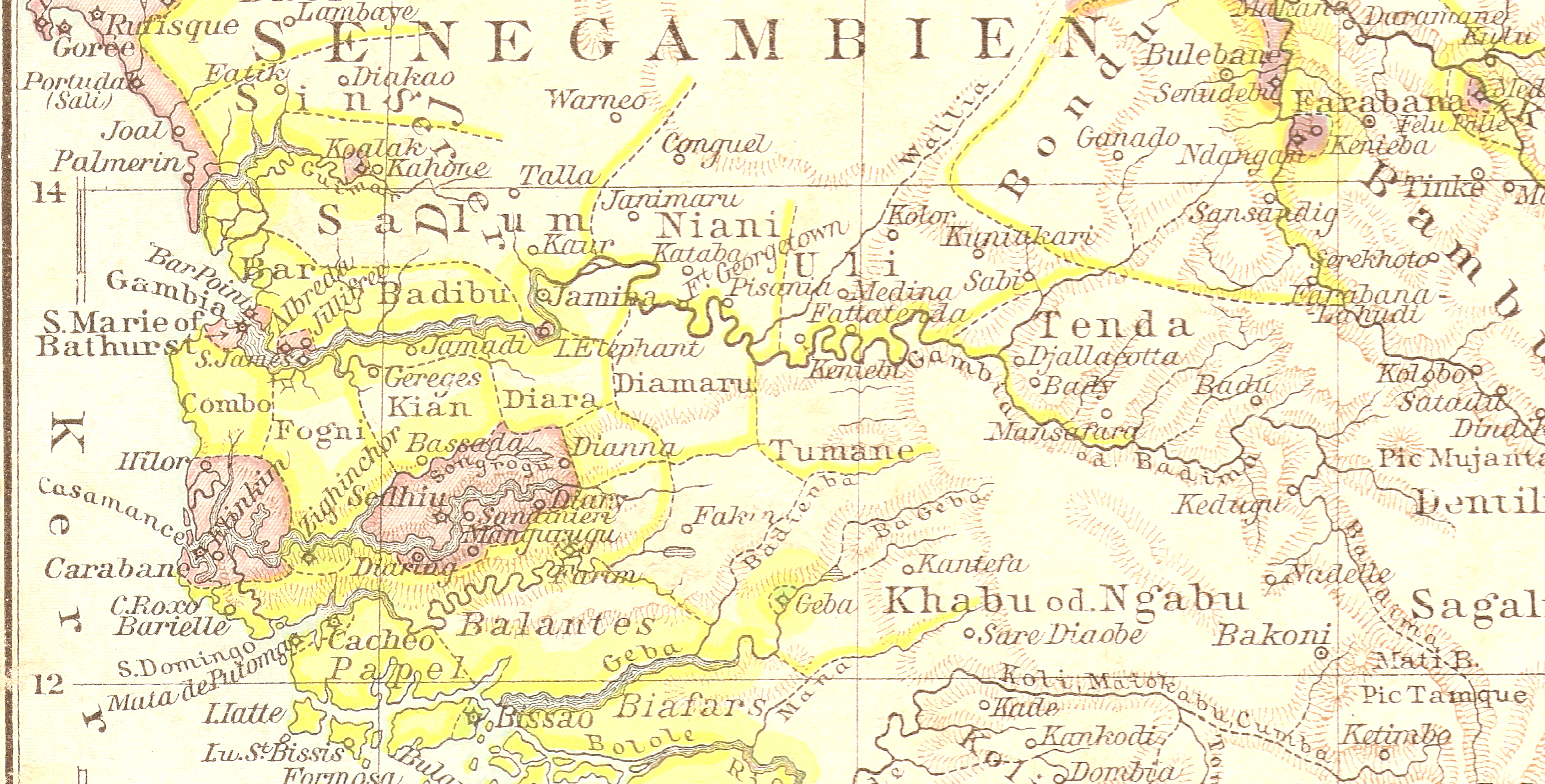 Part of the Map of Senegambia, Andrees Allgemeiner Handatlas, 1st Edition, Leipzig (Germany) 1881, Page 96, Map 1.